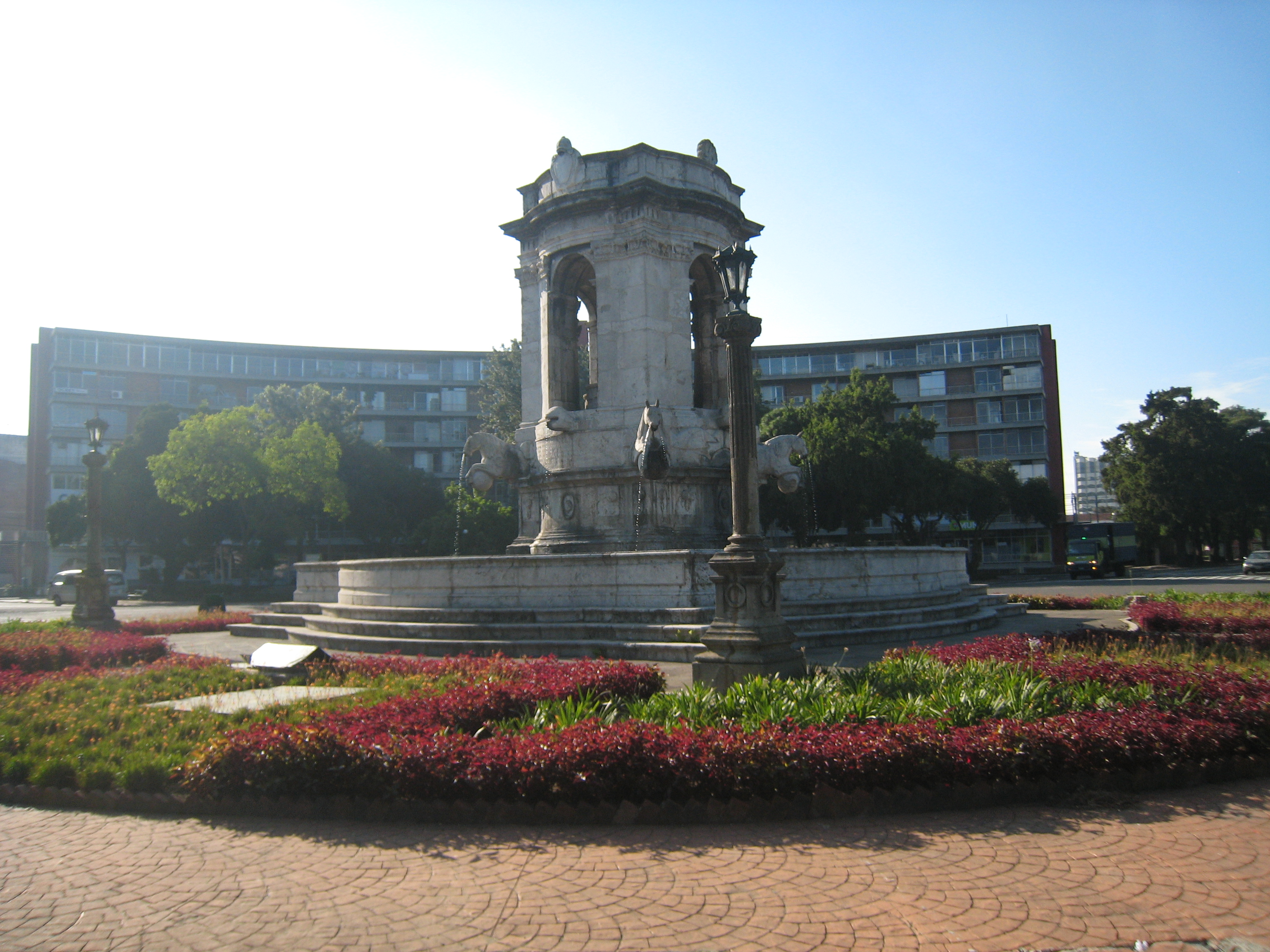 The source is decorated by a garden that surrounds it, in which there are never absent flowers that give him a special attraction. Located in the plazuela españa